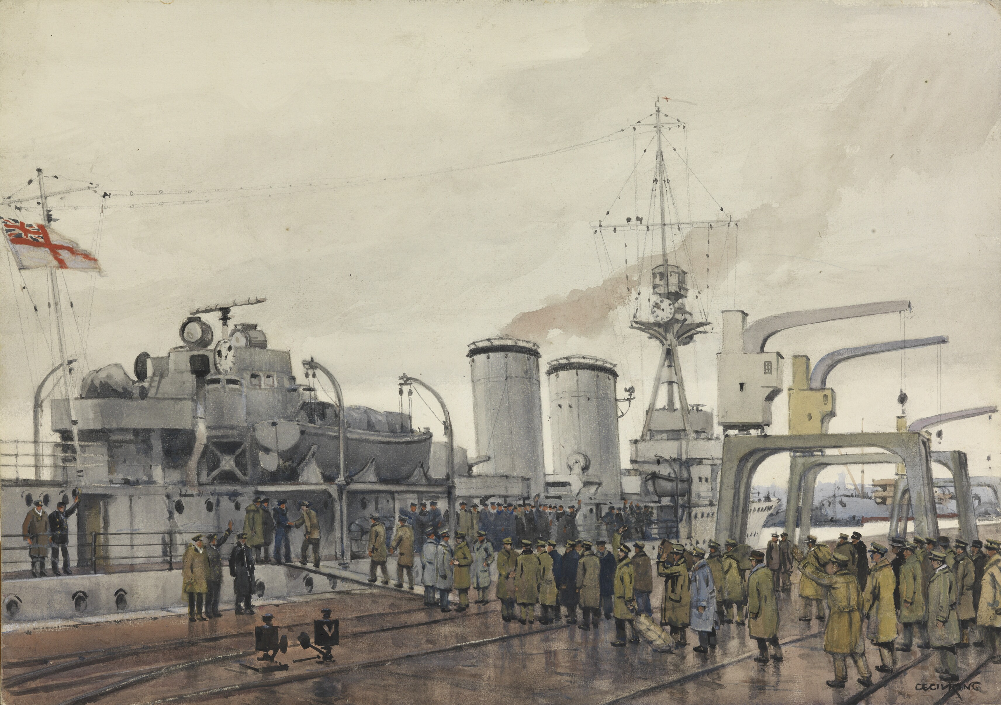 Stettin, New Year 1919 – British prisoners homeward bound boarding "HMS Concord" image: a dockside scene with groups of soldiers queuing to board a warship and being greeted by officers and seamen on the ship; the midships section of the ship is pictured alongside the dock.